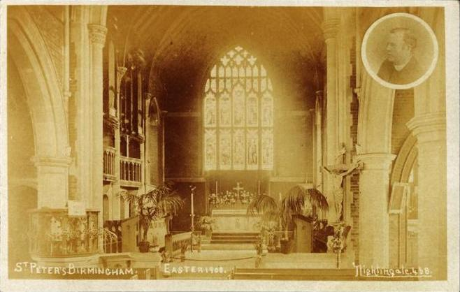 Postcard showing "St Peters Birmingham Easter 1908", now part of the Kesterton Collection at Birmingham Museums & Art Gallery.